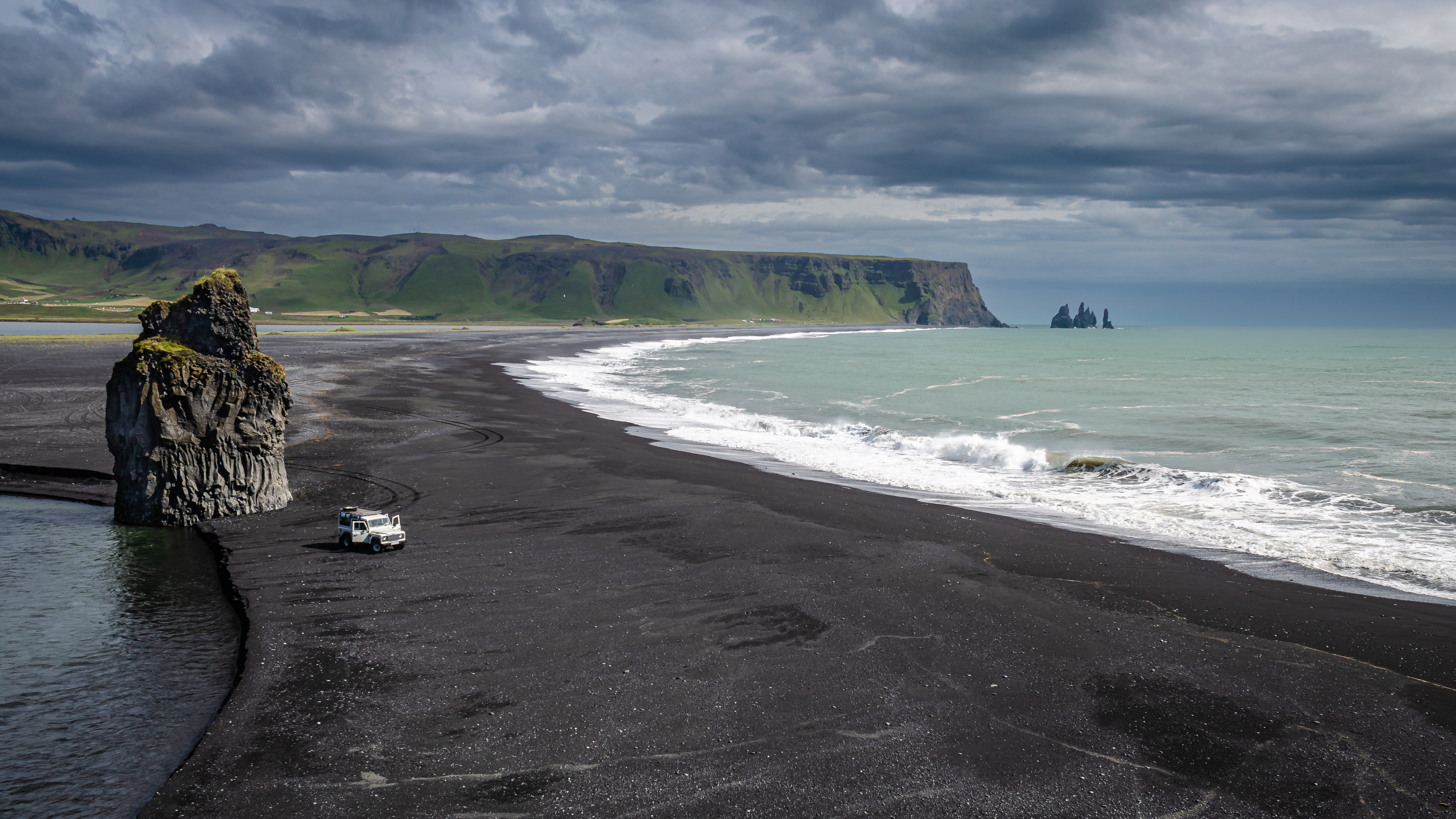 Dyrhólaey, Iceland. Eastward view on Reynisfjall mountain and Reynisdrangar rocks.